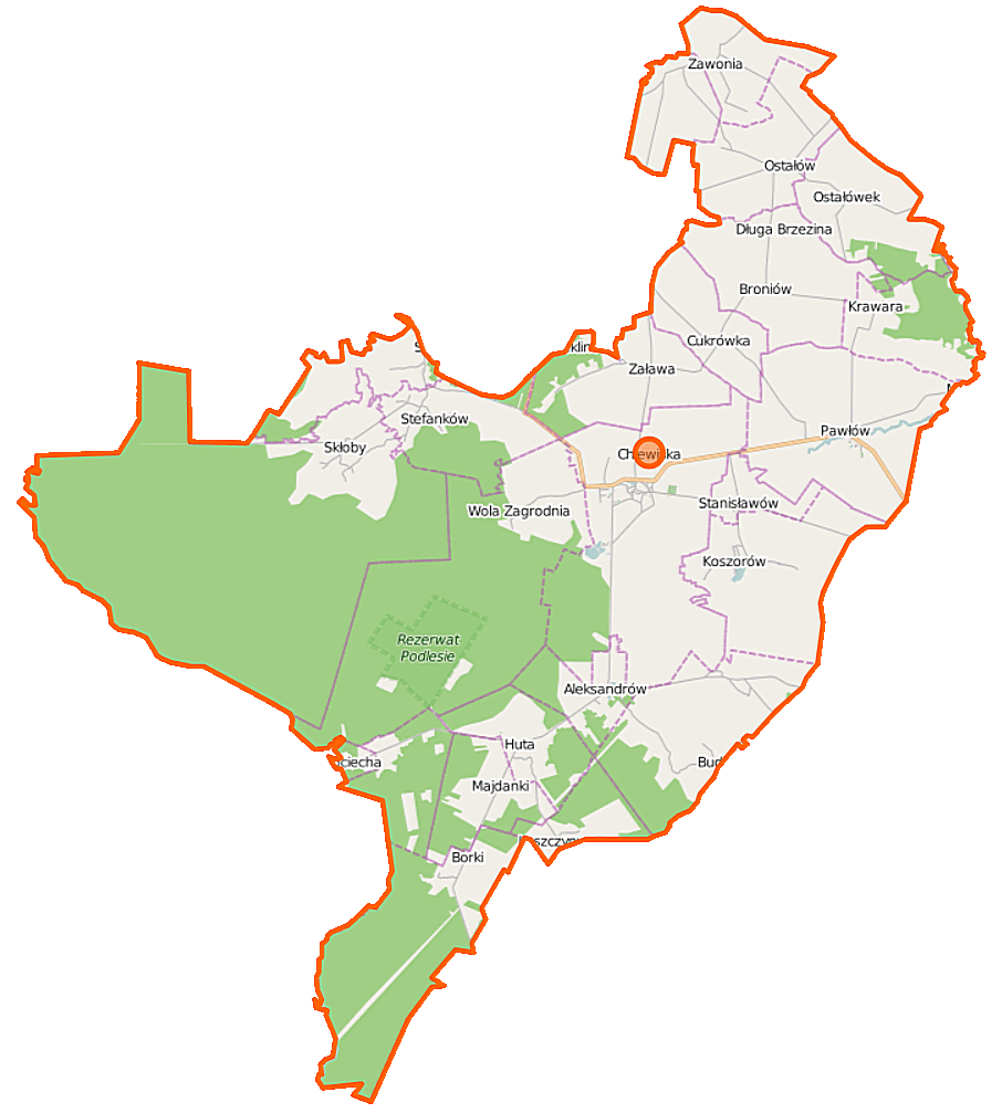 Map of Gmina Chlewiska, Poland This map of Chlewiska (gmina) was created from OpenStreetMap project data, collected by the community. This map may be incomplete, and may contain errors. Don't rely solely on it for navigation. Border coordinates51.320520.6055←↕→20.854551.1470